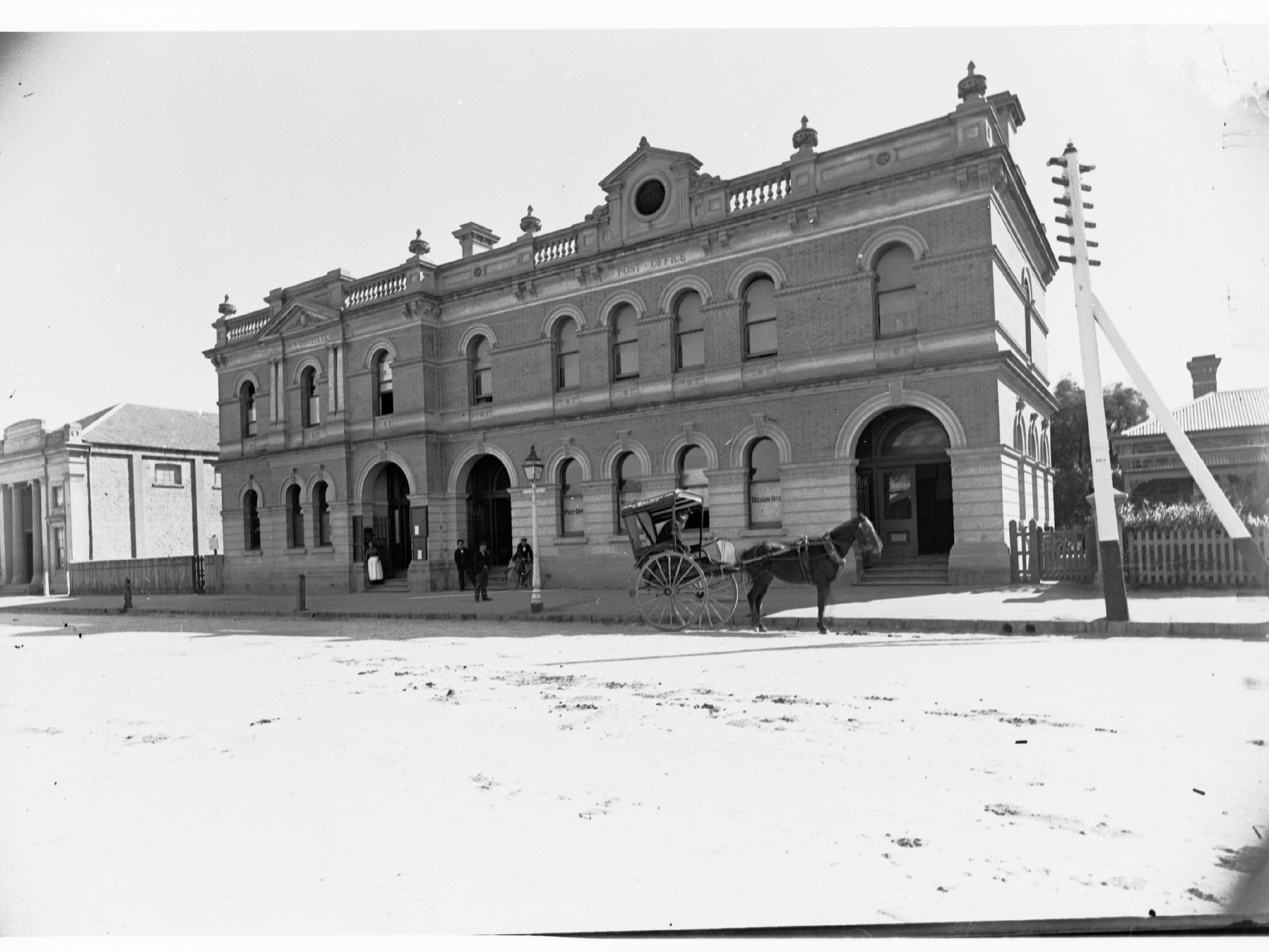 After several meetings of residents interested in the establishment of an Institute the foundation stone for this building was laid by the Governor Sir William Robinson on 10 September 1883. The South Australian Register reported: "The ceremony on Monday attracted a large number of people, and as the weather was fine, and there was a liberal display of bunting on the building and some of the houses in the vicinity, Tynte-street presented a gay and animated appearance. The fife and drum band in connection with the Grote-street Model School were brought over by Mr. Clark, and marched at the head of the scholars of the North Adelaide Model School from the Tynte-street School to the Institute site, where they were ranged in front of the building." The building was opened in April the following year with a large crowd filling the hall of the building. There was a library and assembly room on the ground floor, and a reading room and committee rooms on the first floor. The Post and Telegraph Office opened in November of 1884. The building has been a landmark in North Adelaide ever since, and is heritage listed.